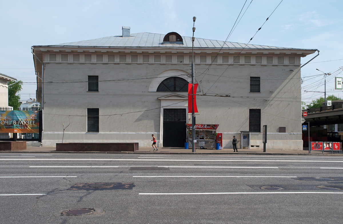 Zubovsky Boulevard, Moscow. The Food Warehouse buildings (1832-1835) designed by V. P. Stasov and F. M. Shestakov.